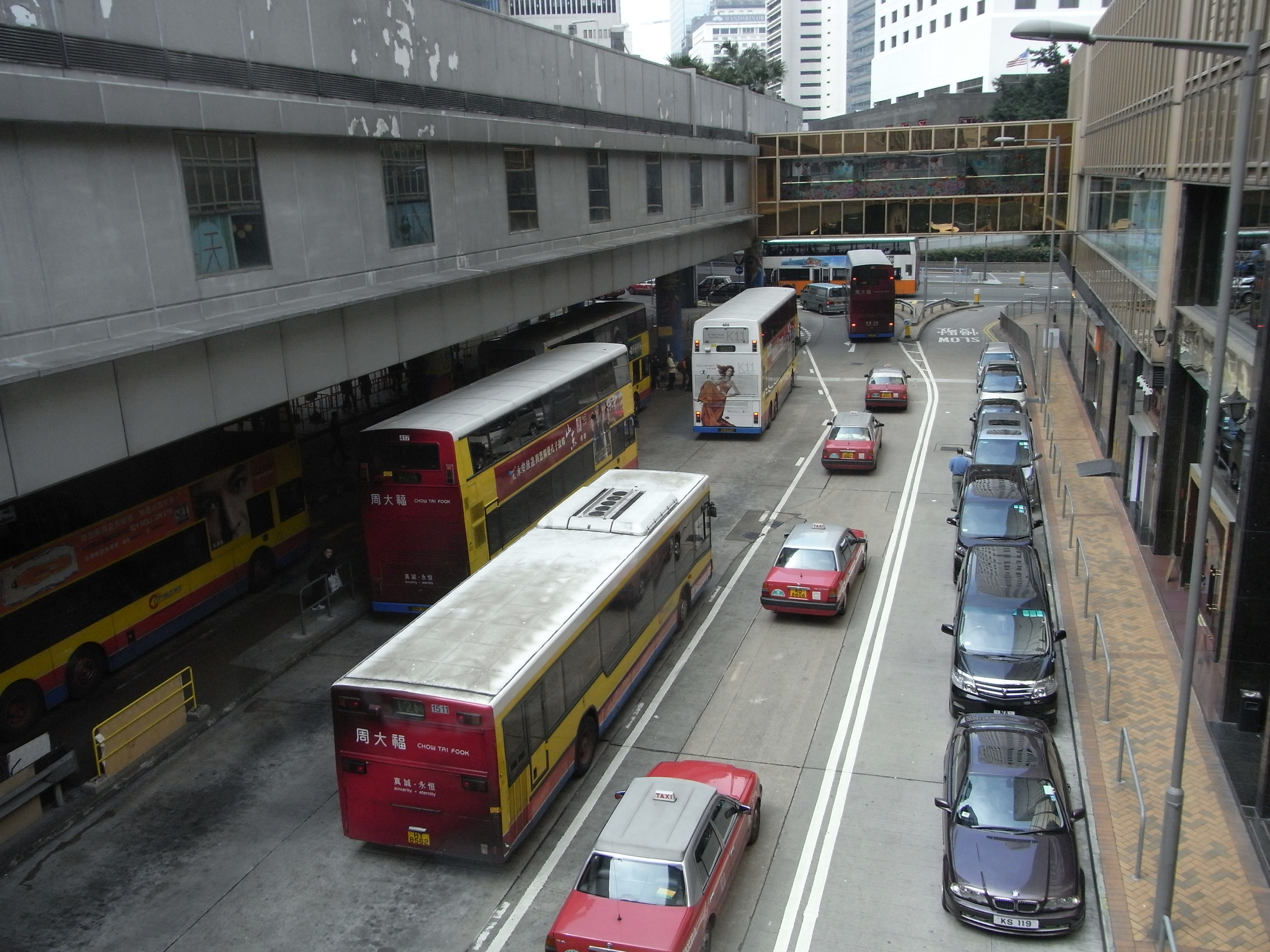 香港金鐘 德立街